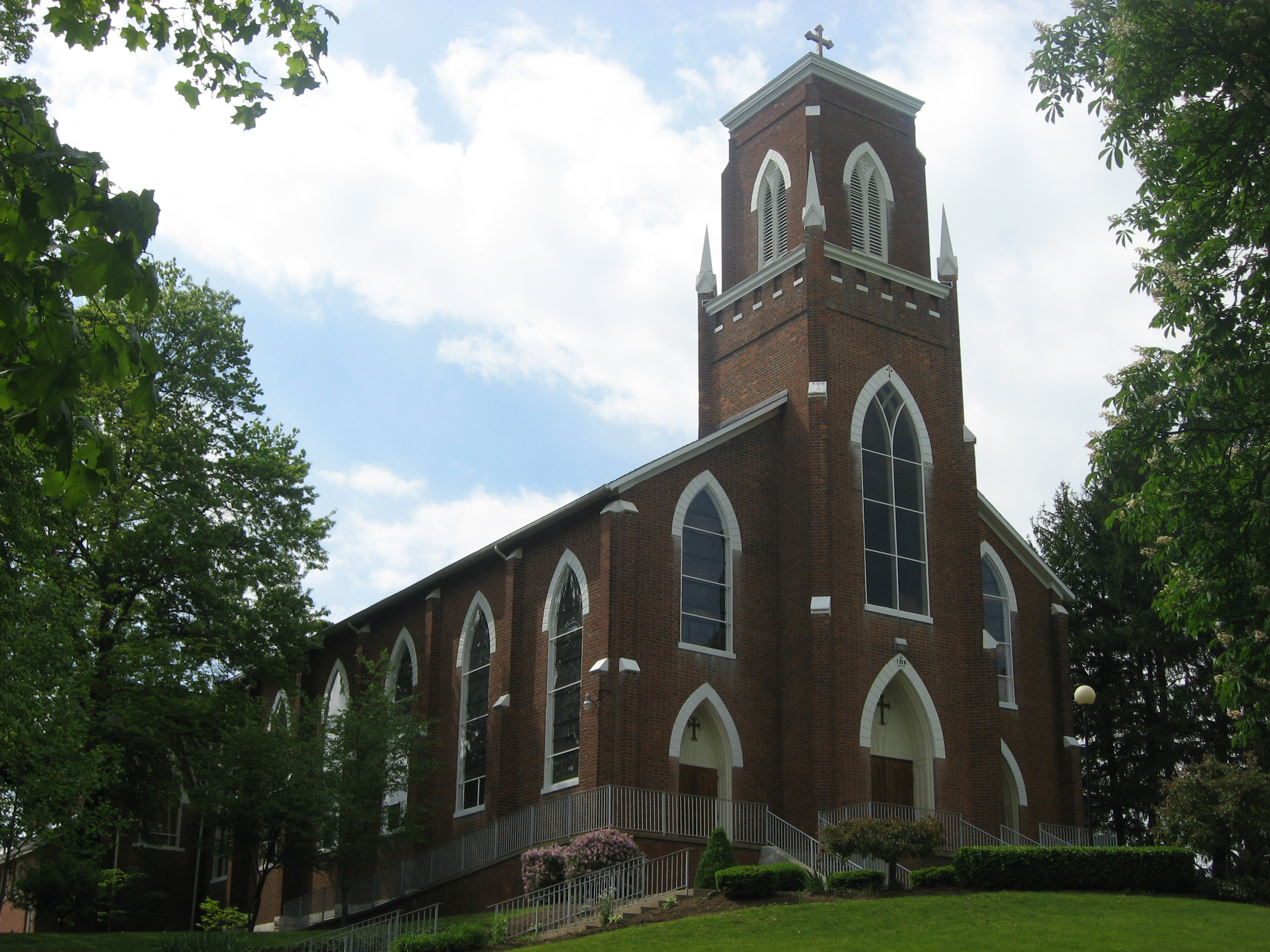 Front and southern side of St. Joseph's Catholic Church, located at 5757 State Route 383 southeast of Somerset in Reading Township, Perry County, Ohio, United States. Built in 1843 and later substantially modified, it is the third building to house Ohio's oldest Catholic parish, and it is listed on the National Register of Historic Places.